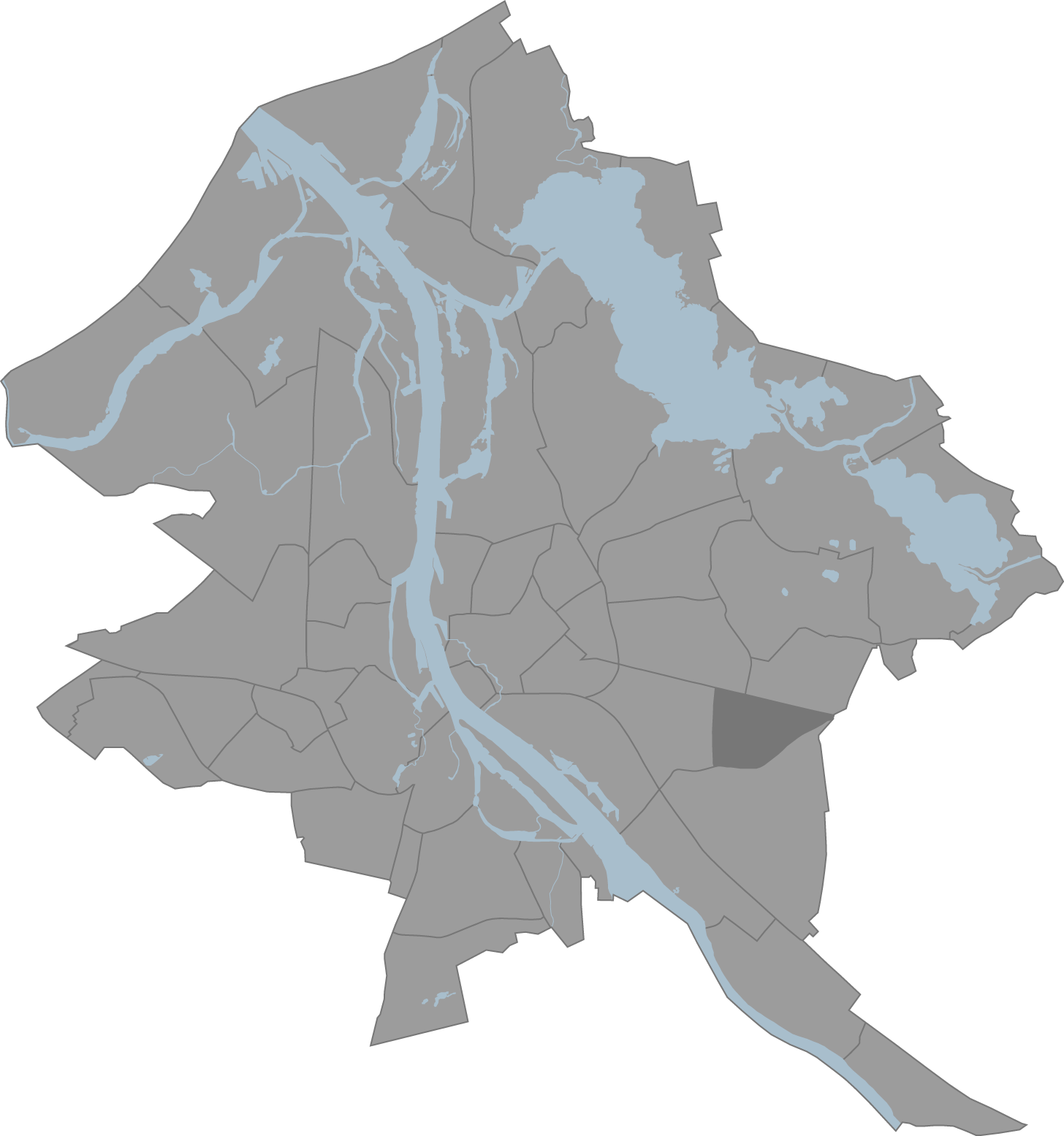 A map of Riga, Latvia with the eponymous commune highlighted